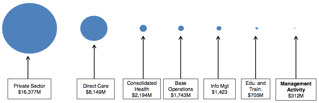 Public information provided by the United States Department of Defense Military Health System (MHS) regarding the breakdown of Defense Health Program (DHP) Budget Activity Groups (BAG).